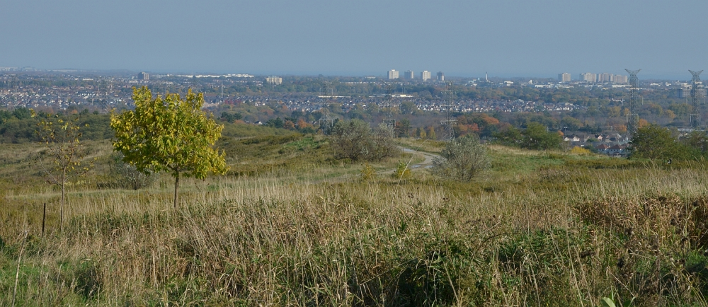 Looking south-east from the top of Brock West Landfill in Pickering, Ontario, Canada.